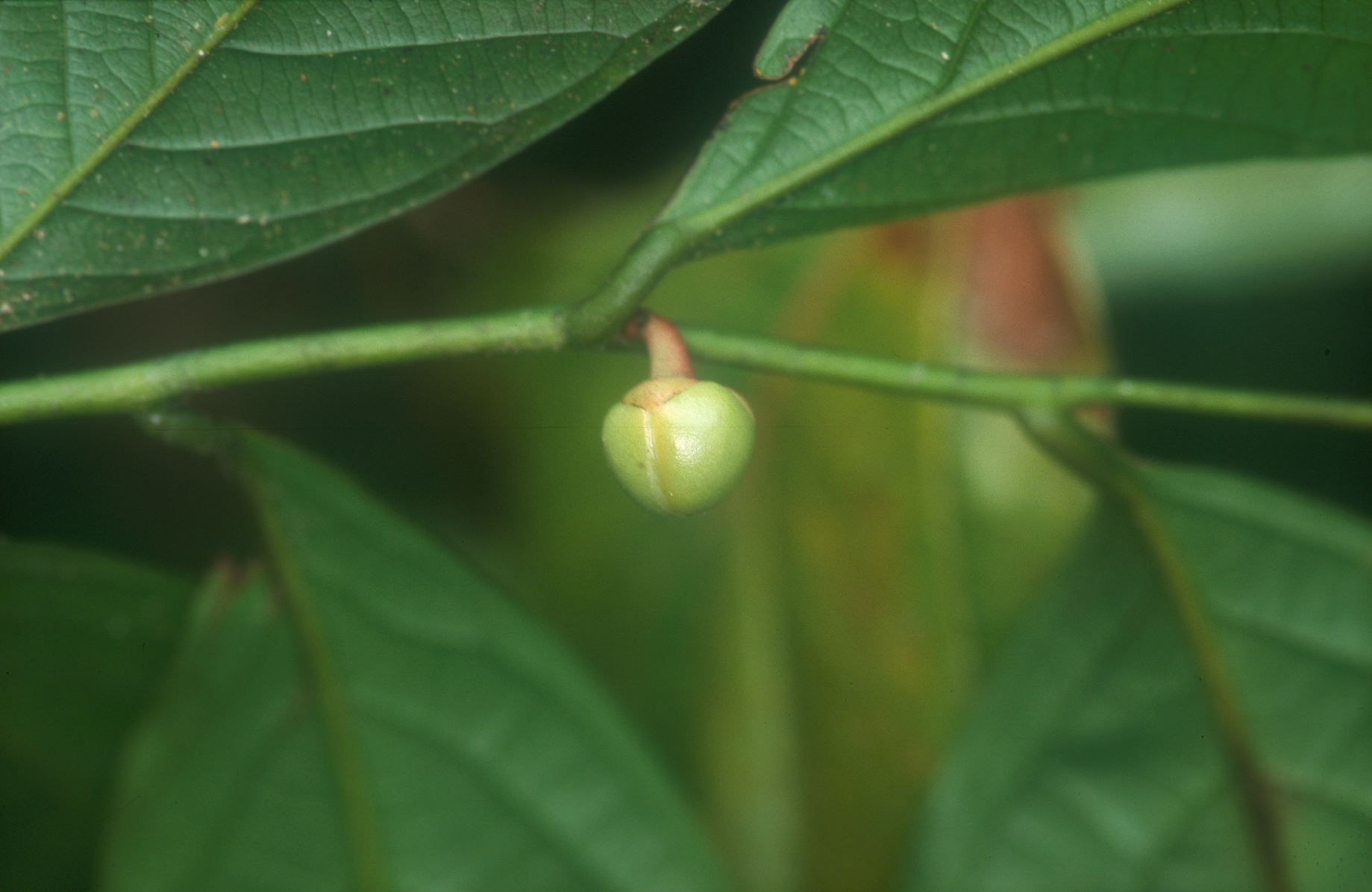 Flowering branch of the type collection of Cremastosperma yamayakatense Pirie (Annonaceae), from Amazonas, Peru.